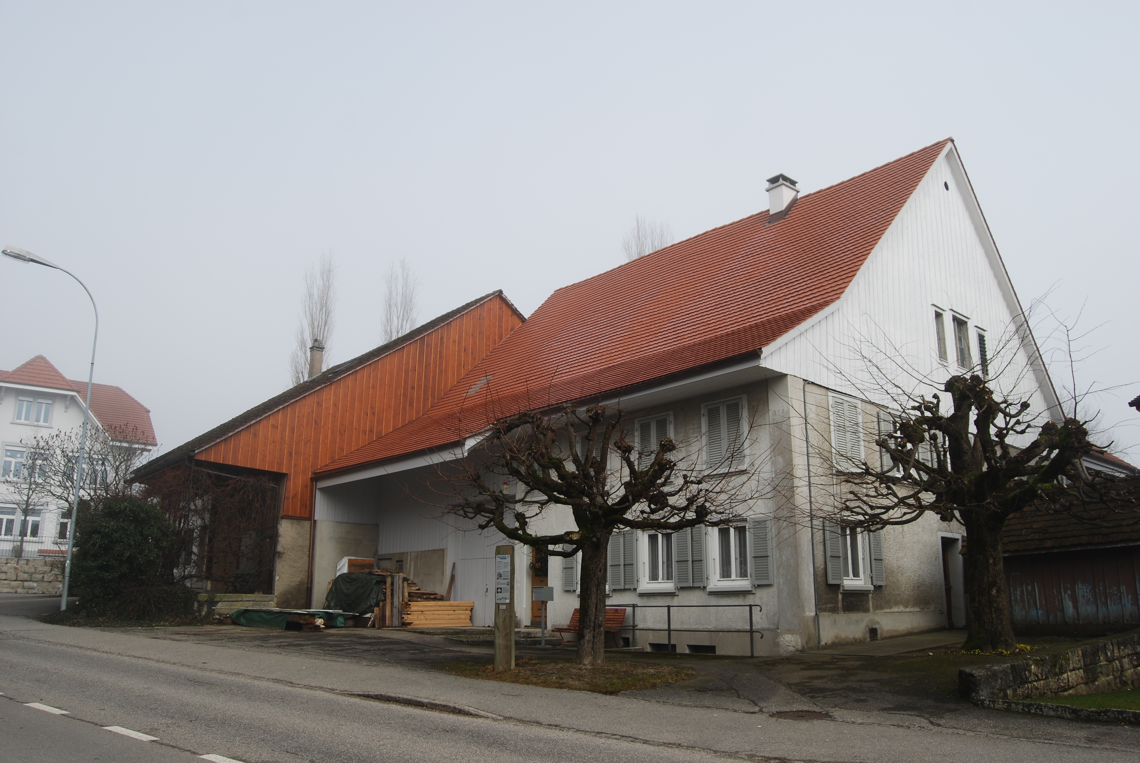 Matzendorf, canton of Solothurn, Switzerland